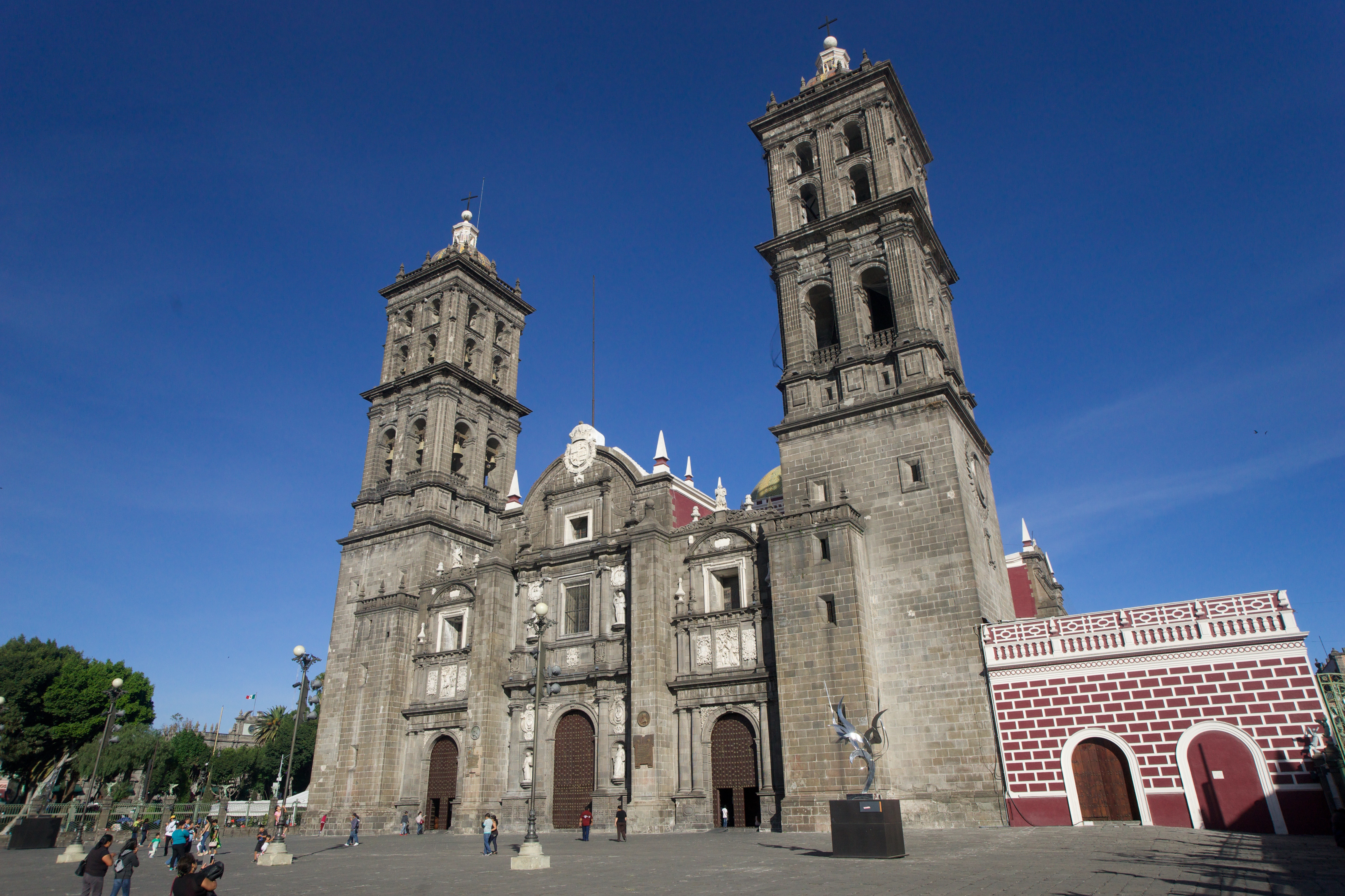 Catedral of Puebla de Zaragoza.